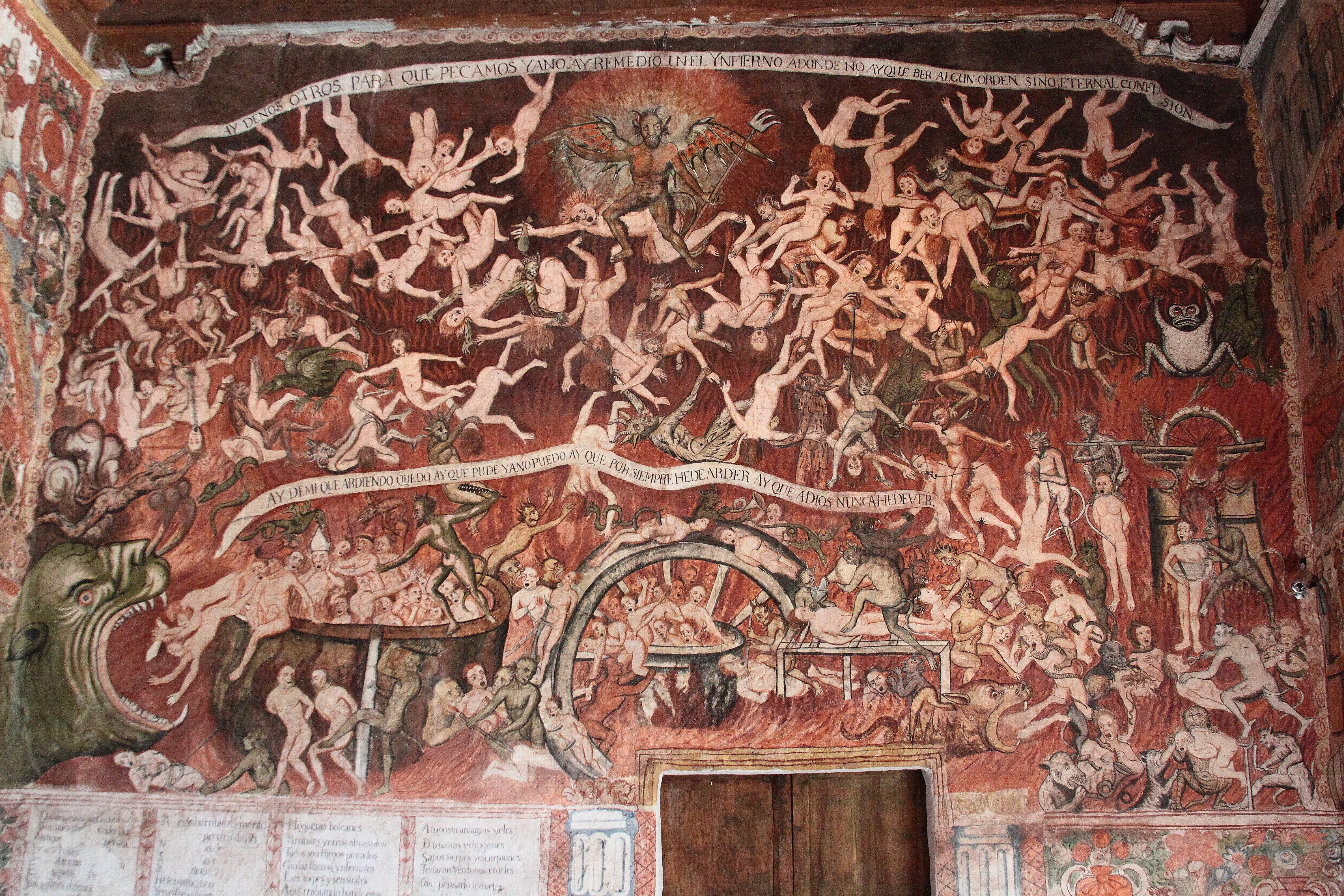 Fresque de l'église Saint Jean le Baptiste d'Huaro